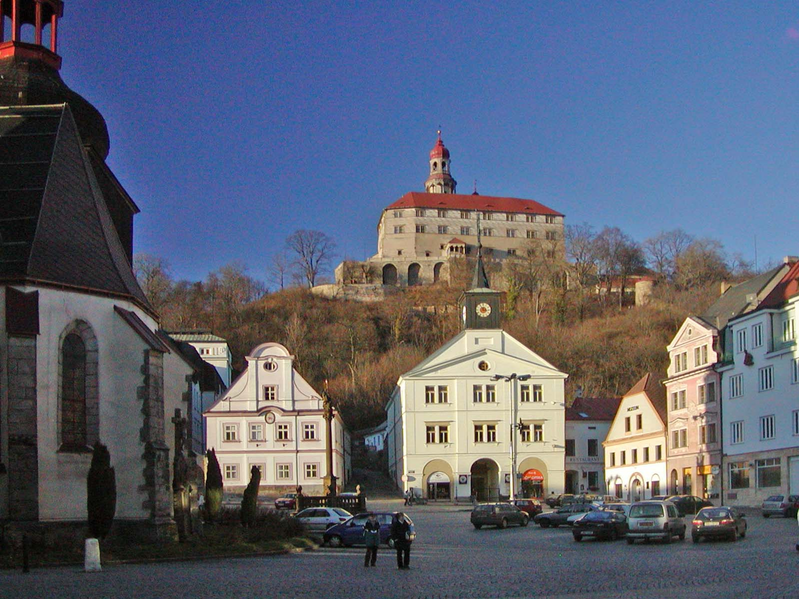 Description=Square in Náchod Author=Martin Langr